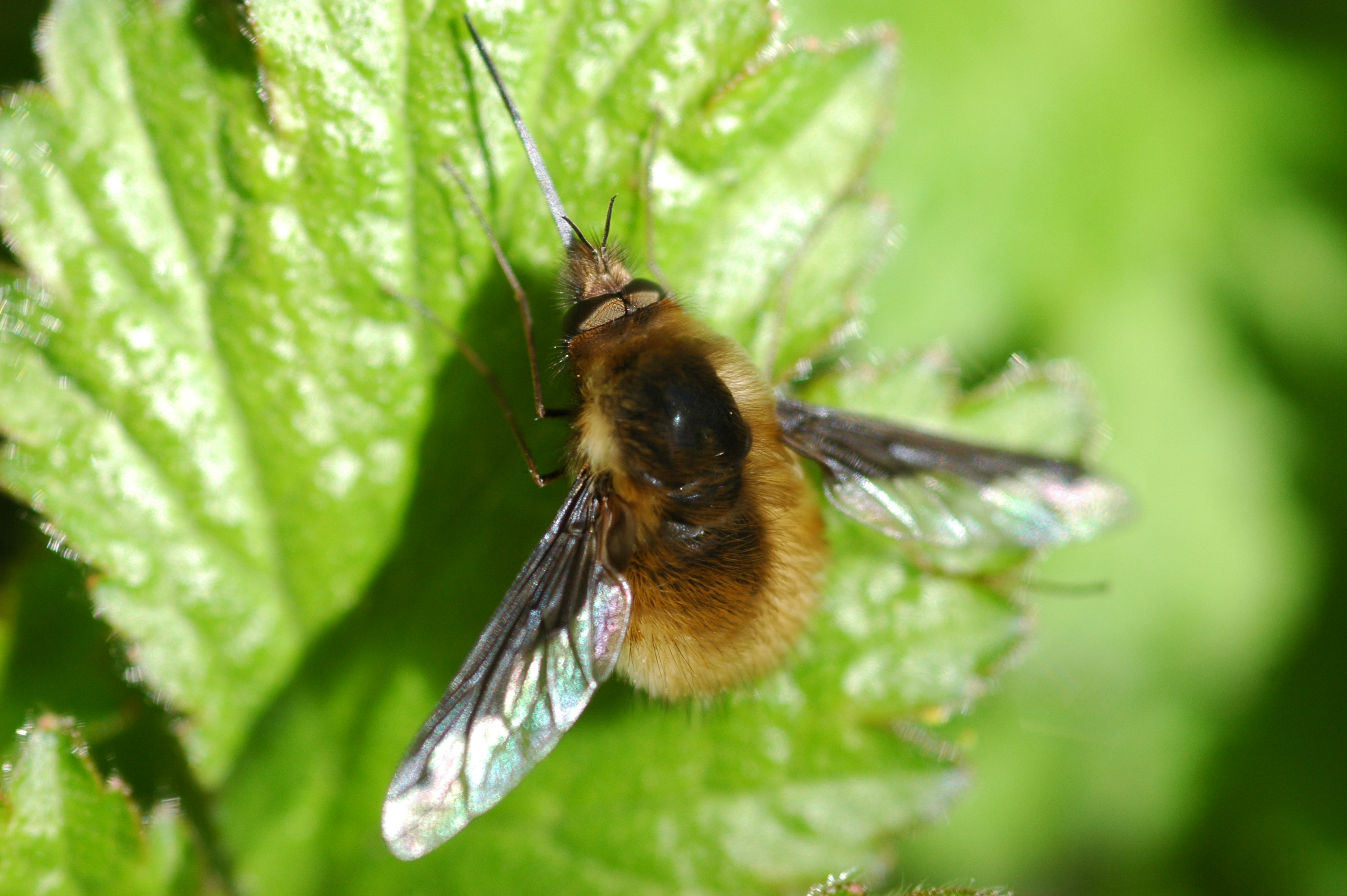 Large bee fly